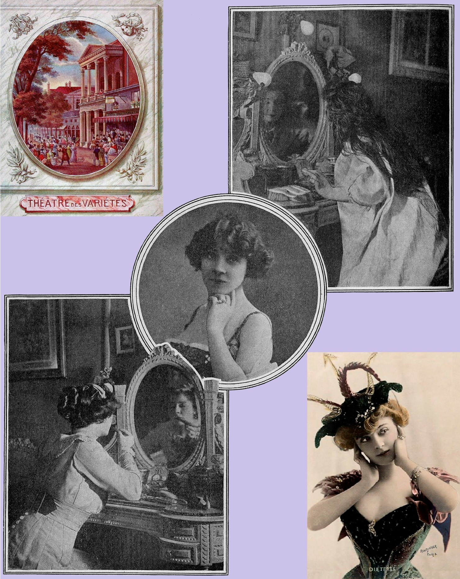 The actress Amélie Diéterle during a make-up session in her dressing room at the Théâtre des Variétés in Paris before going on stage to face the limelight, by photographer Léopold-Émile Reutlinger. Amélie Diéterle is a French actress born in Strasbourg on 20 February 1871 and died in Cannes on 20 January 1941. She was legitimated in Paris in 1892 by Captain Louis Laurent, Knight of the Legion of Honor. Amélie Diéterle married in Vallauris on 16 June 1930 with André Simon (1877-1965). Amélie Diéterle plays mainly at the Théâtre des Variétés in Paris during the Belle Époque.